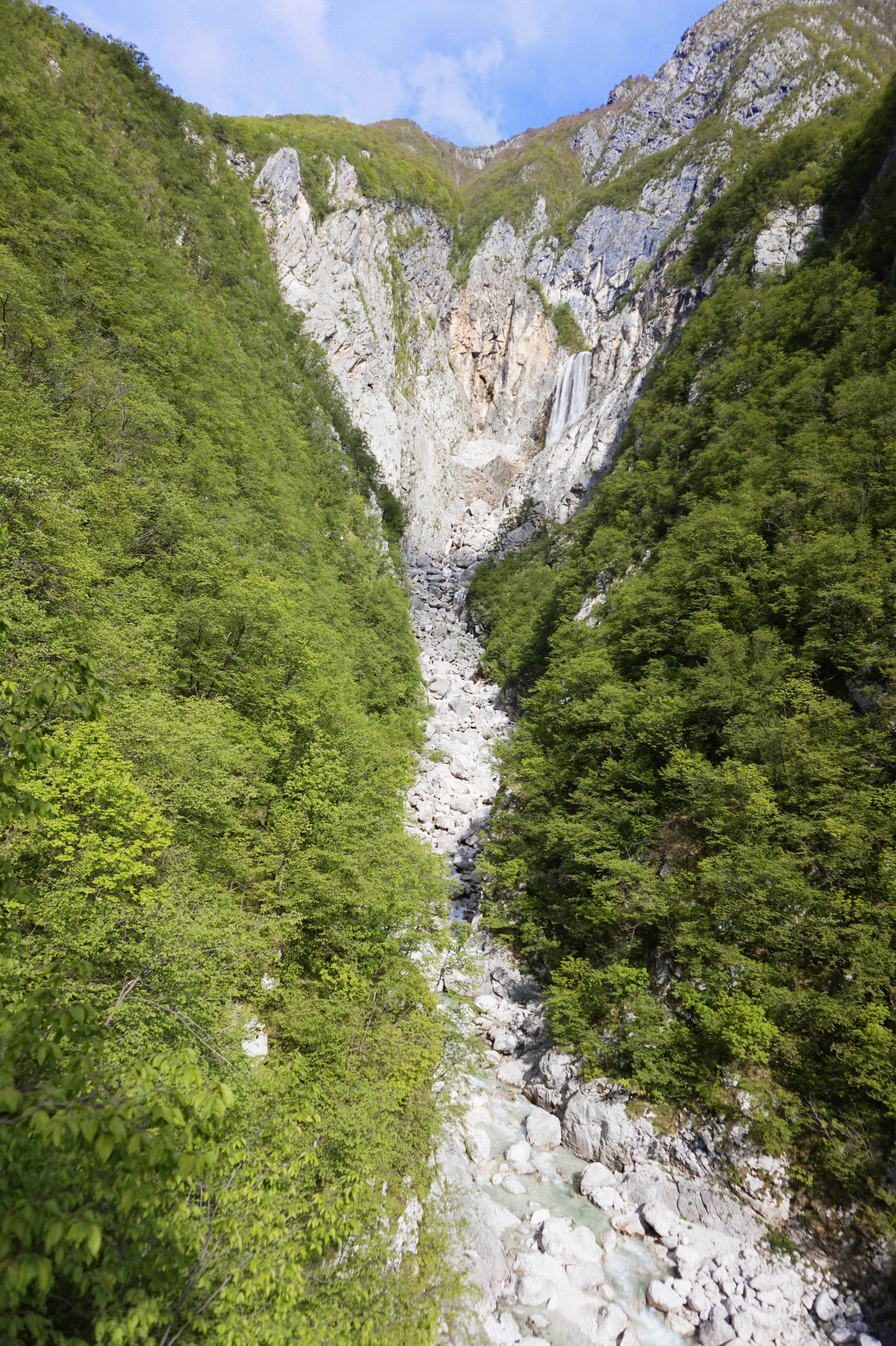 Boka waterfall in Slovenia. This photograph was taken with a Sony Alpha a5000.